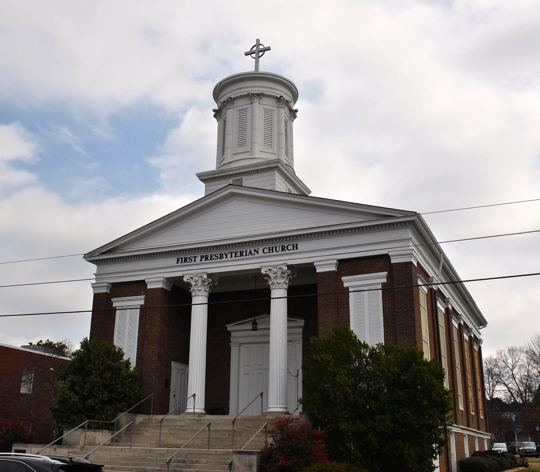 Located at Shelbyville, Bedford County, Tennessee. Built in 1854 and added to the NRHP on 17 July 1980.